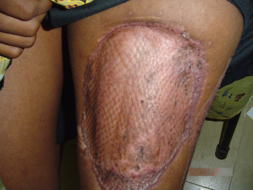 Giant pyogenic granuloma, left thigh. Note (arrow) normally healed skin graft donor site on the proximal edge of the mass.